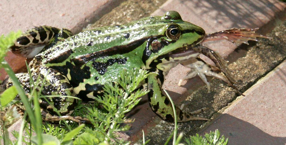 Edible frog, Pelophylax esculentus, eating another one (cannibalism).